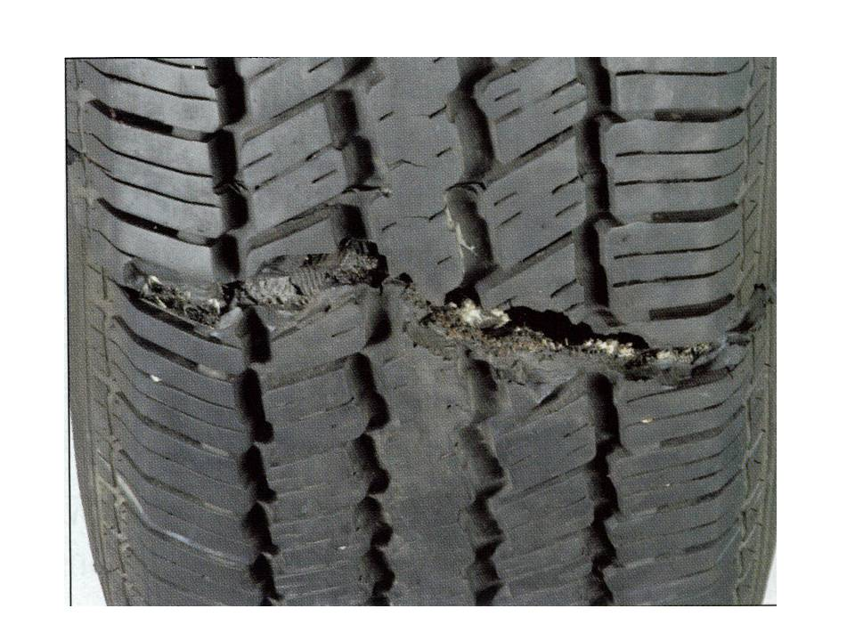 This tire failed due to impacting an object.